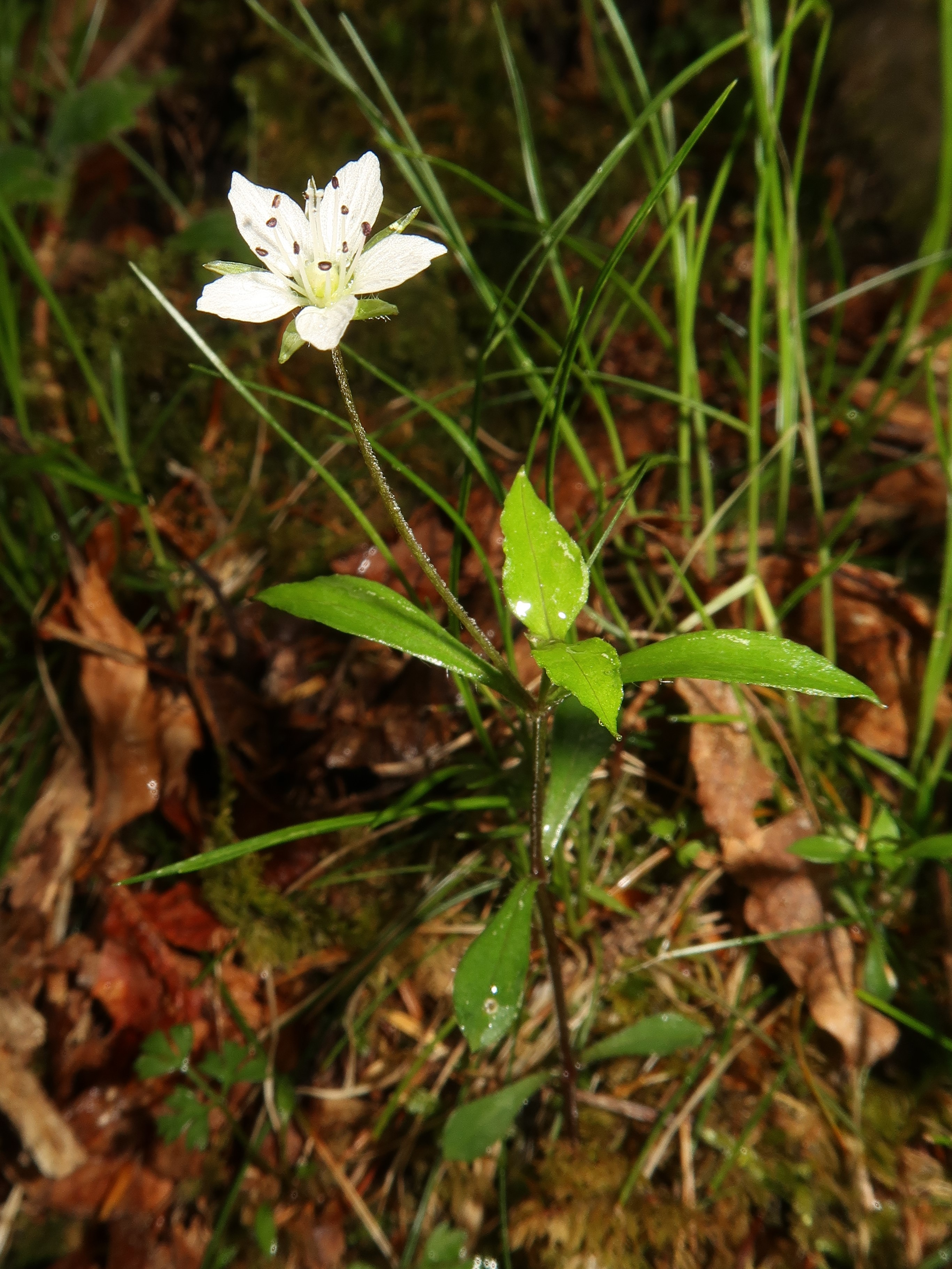 Pseudostellaria heterantha, north area, Tochigi pref., Japan